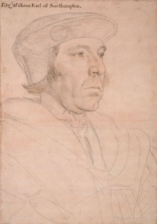 Portrait of William FitzWilliam, 1st Earl of Southampton. Black and coloured chalks, metalpoint, on pink-primed paper, 38.8 × 27.4 cm, Royal Collection, Windsor Castle. The retracing of outlines with metalpoint seems to have been done when transferring the design to a panel for painting. No painting of FitzWilliam by Holbein himself survives, but a copy of a full-length portrait of the sitter, purporting to date from 1542, is in the Fitzwilliam Museum, Cambridge. Art historian K. T. Parker, in his study of the Windsor drawings, judged the sketch as "one of the most impressive and purest of the series" (Parker, p. 54). William FitzWilliam, 1st Earl of Southampton (c. 1490–1542), was Lord Privy Seal in 1553, Lord High Admiral, 1536–40, and became Earl of Southampton in 1537. Reference K. T. Parker, The Drawings of Hans Holbein at Windsor Castle, Oxford: Phaidon, 1945, OCLC 822974.